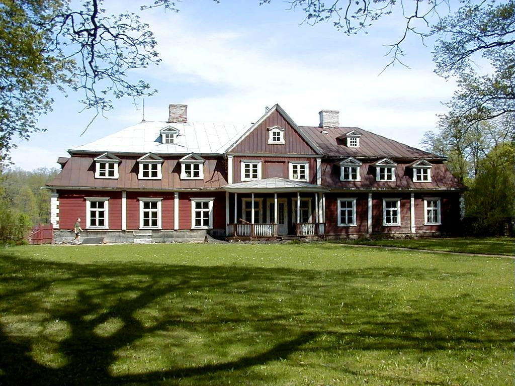 Orellen manor